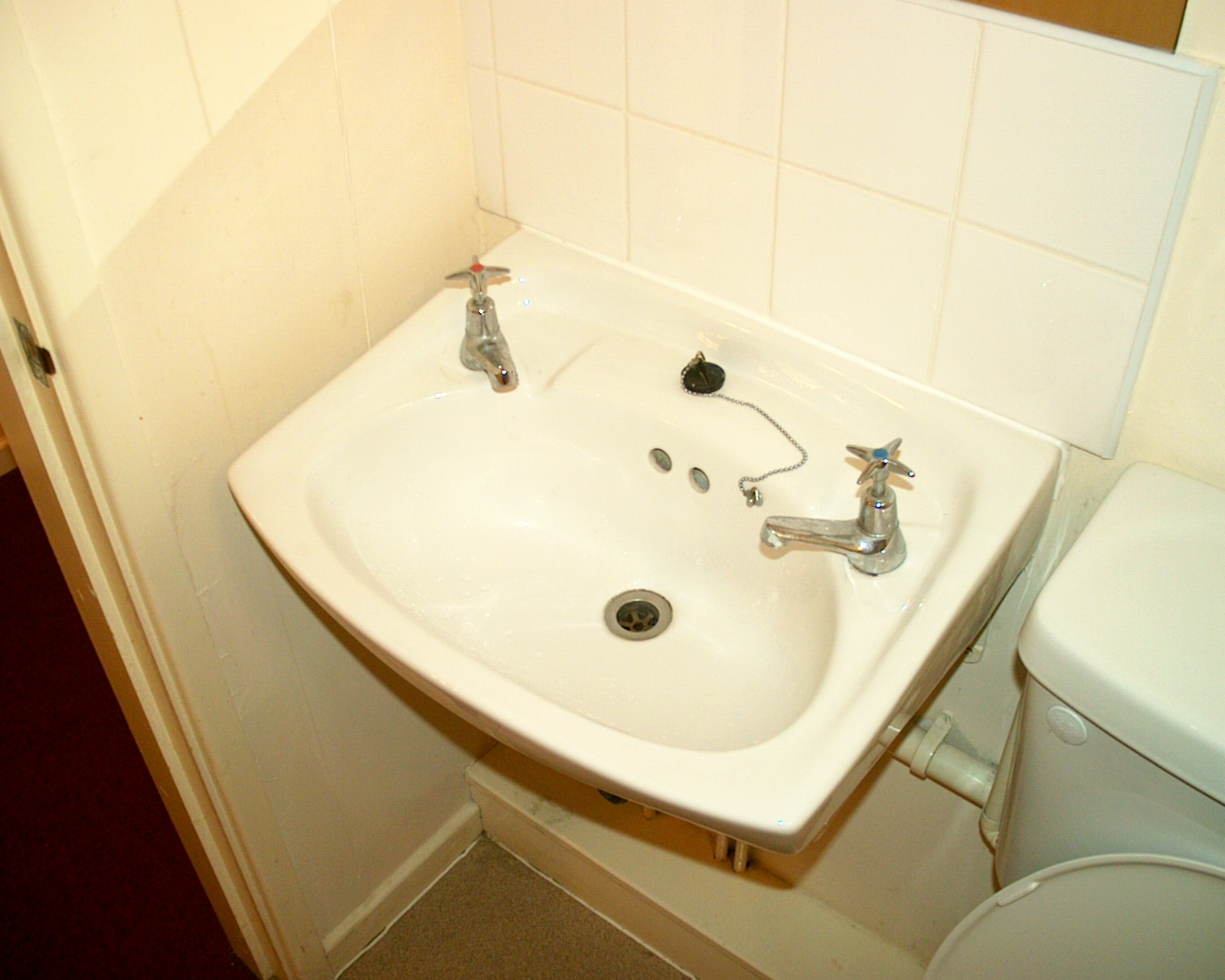 Separate taps for hot and cold water in Wales, United Kingdom